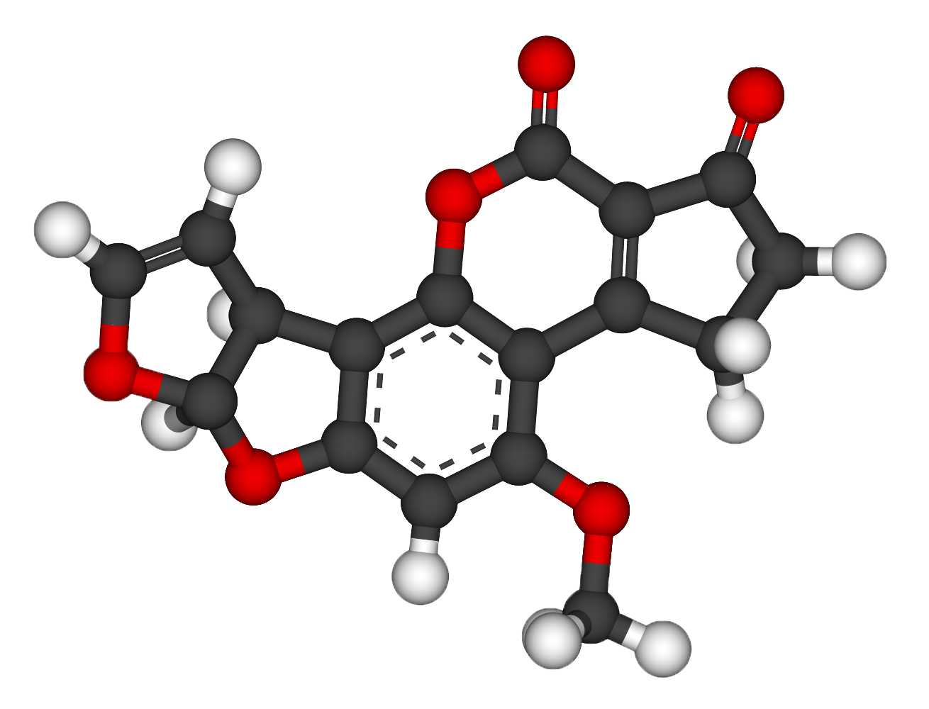 AflatoxinB1